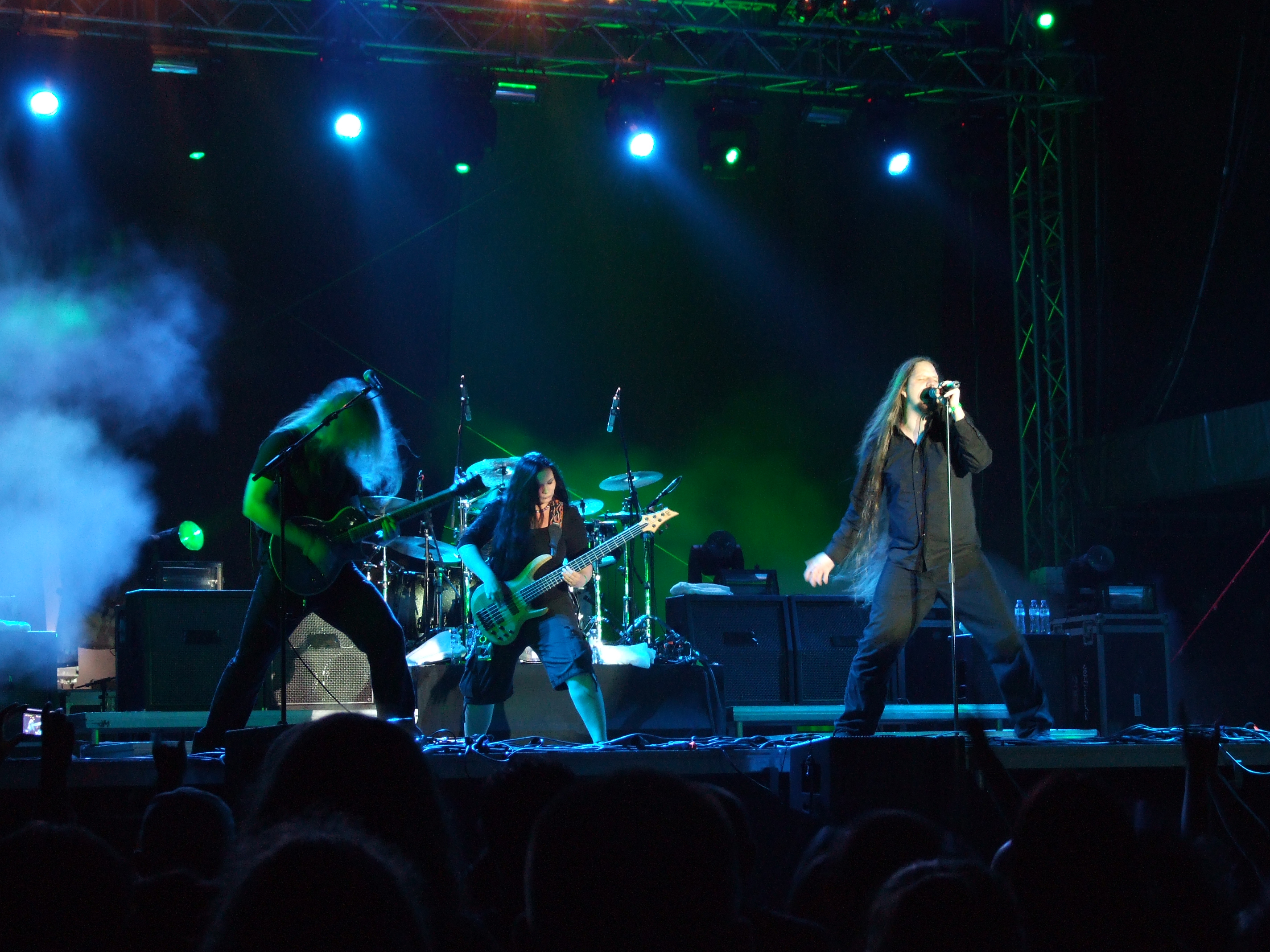 Atrocity at „Kavarna Rock Fest“ - 23 July 2010 - Kavarna, Bulgaria